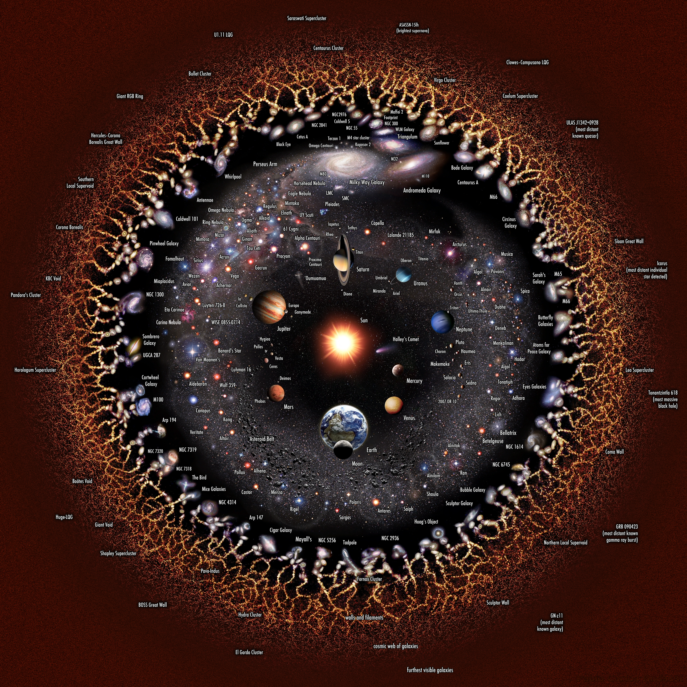 Logarithmic scale conception of the observable universe with the Solar System at the center, inner and outer planets, Kuiper belt objects, Alpha Centauri, Perseus Arm, Milky Way galaxy, Andromeda galaxy, nearby galaxies, Cosmic Web, Cosmic microwave radiation and Big Bang's invisible plasma on the edge. Distance from Earth increases exponentially from the center to the edge. Celestial bodies are shown enlarged to appreciate their shapes.